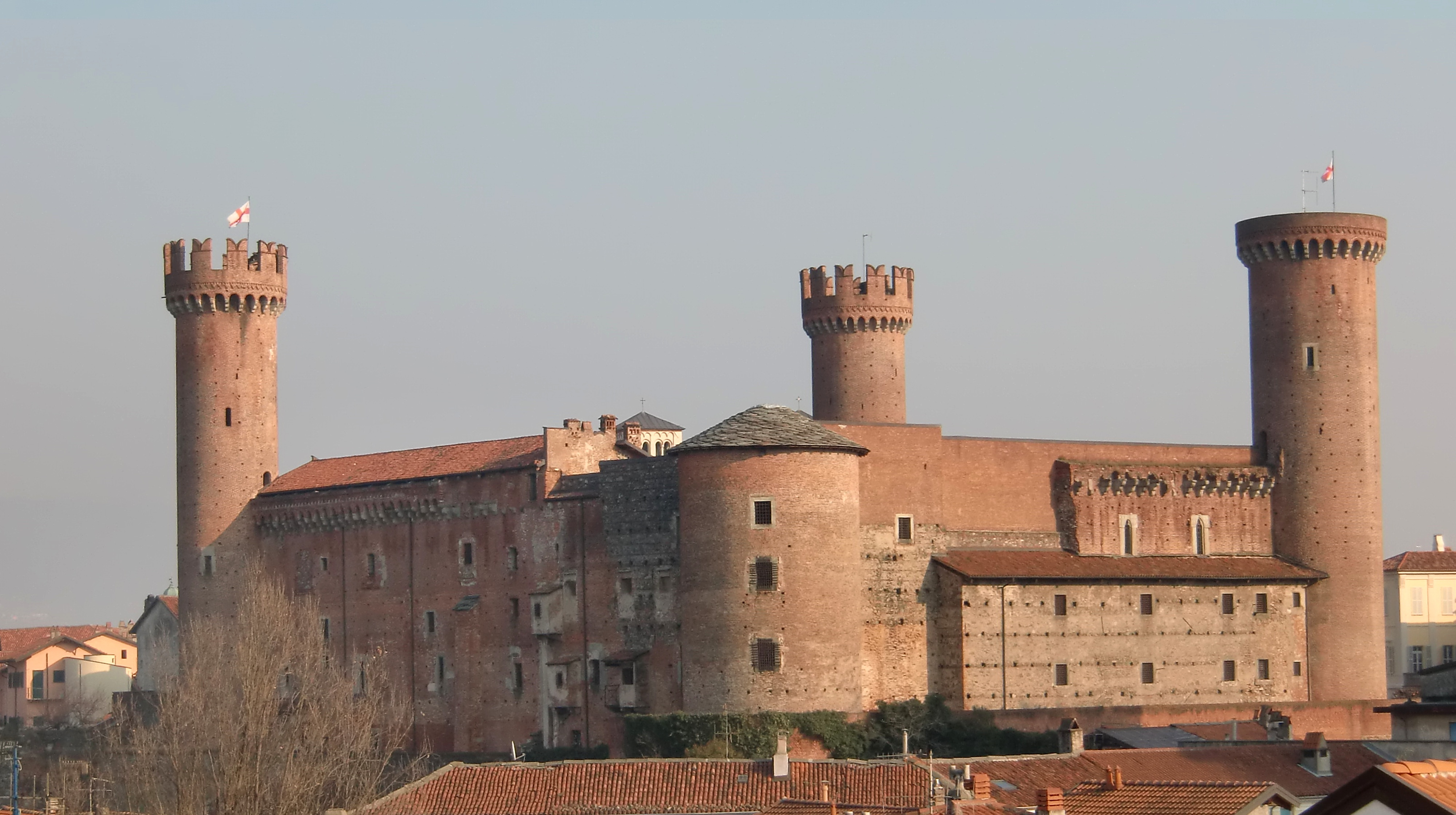 Ivrea, the castle (XIV century)